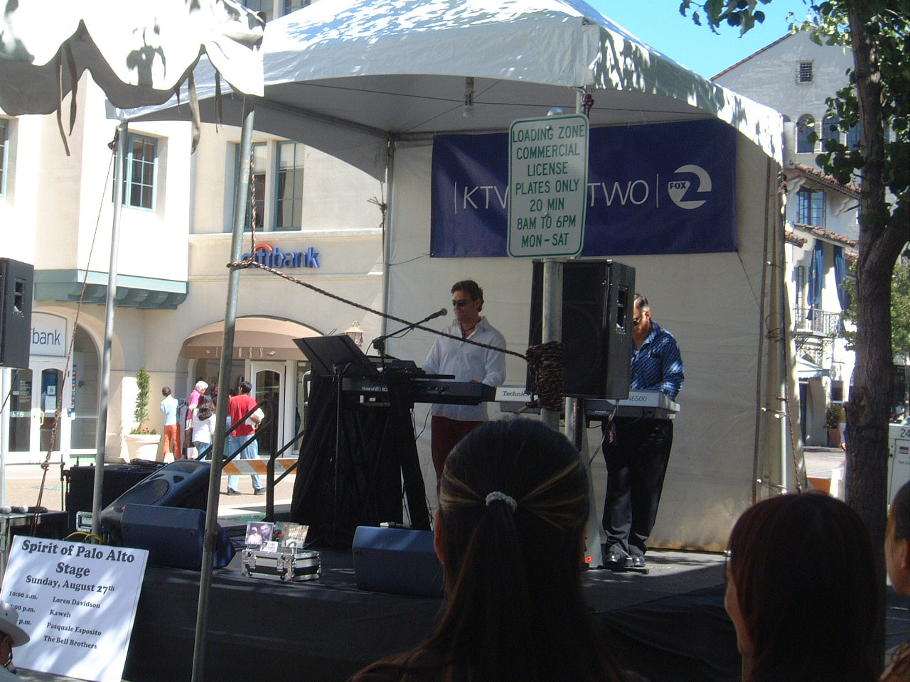 Pasquale Esposito